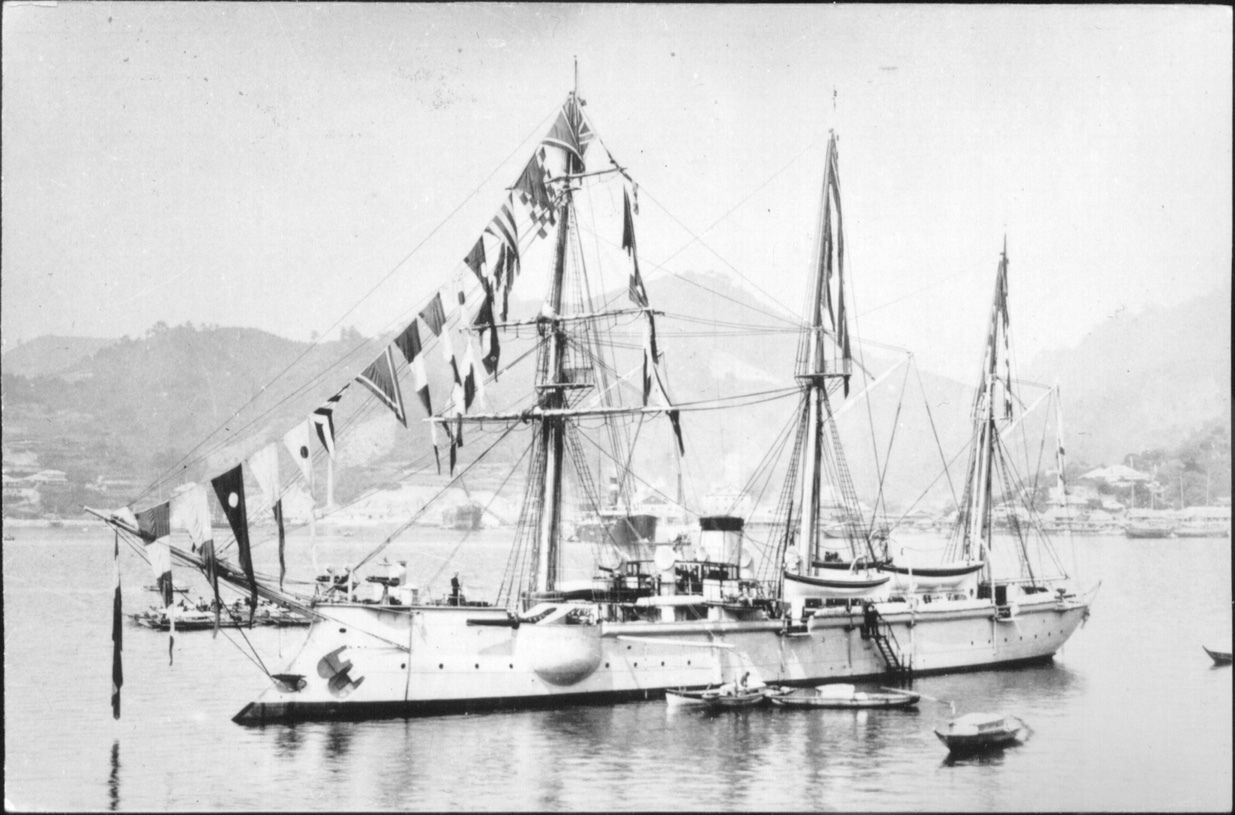 Imperial Russian gunboat Koreets.